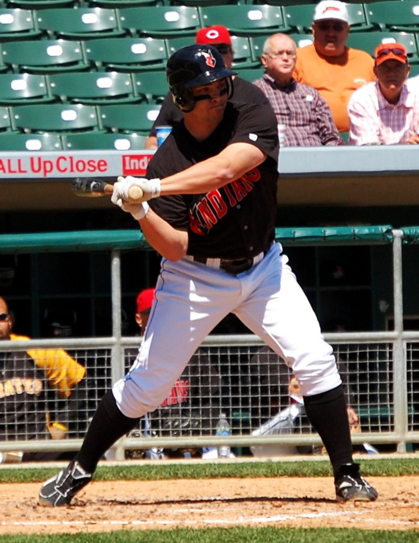 Steve Pearce